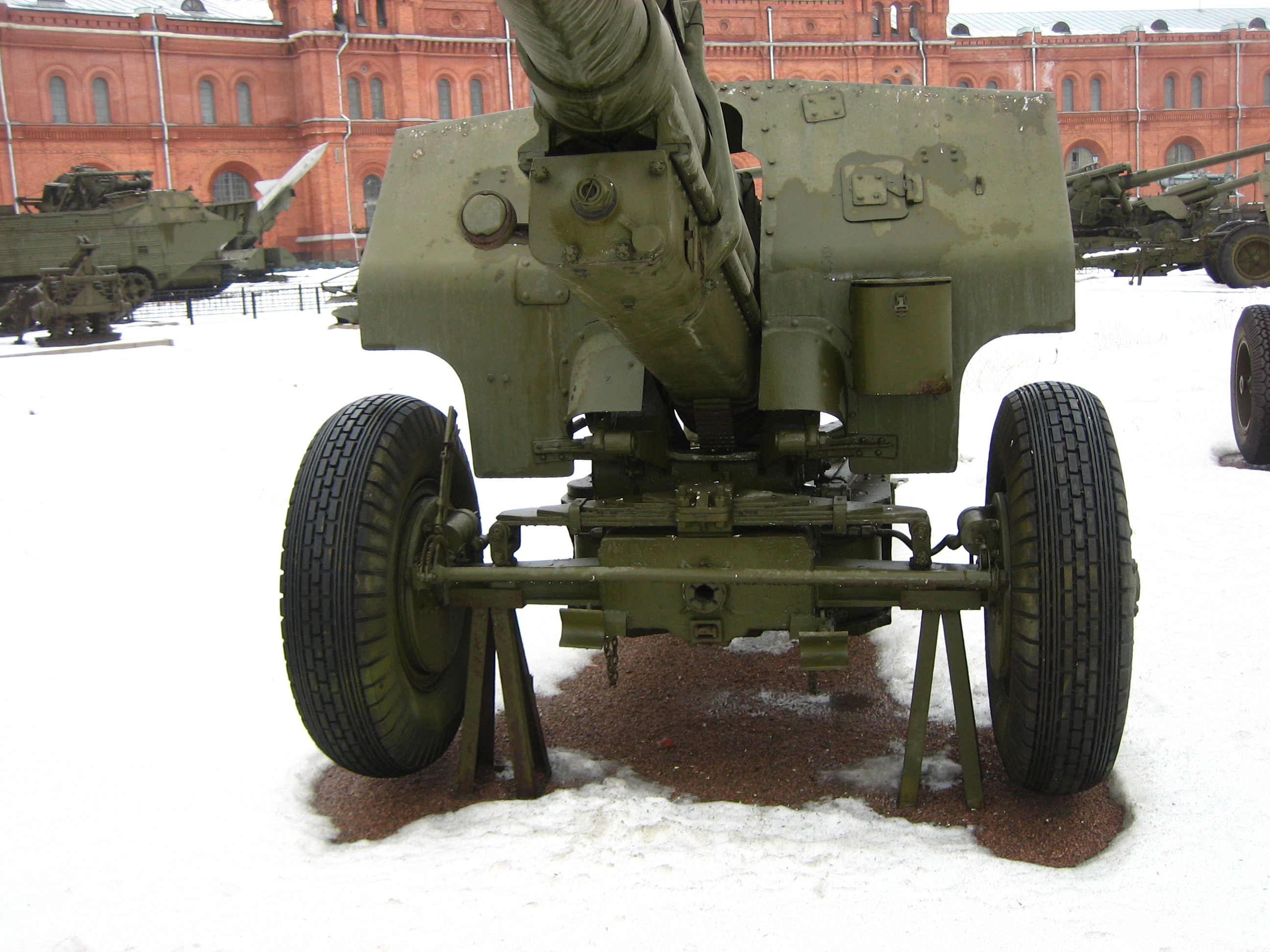 Soviet 107 mm M-60 Mark 1940 gun, displayed in Saint Petersburg Artillery Museum. Photo taken on 3 Marсh, 2007. Source: Photo by me, User:Saiga20K.